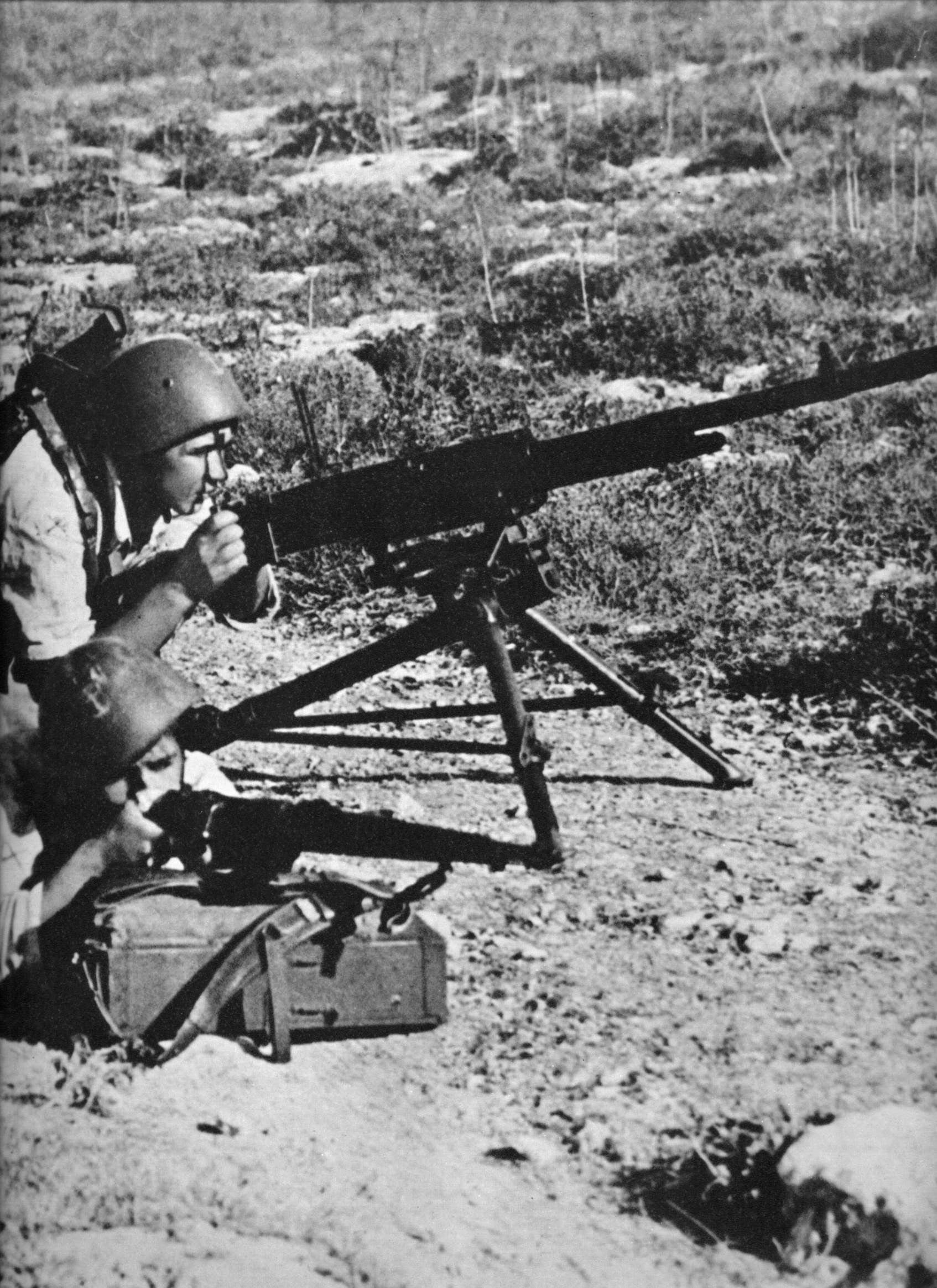 A machine gun team of Italian marines after landing at Sitia, Crete, on 27 May 1941